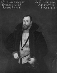 Portrait of Sir John Thynne (c. 1513-1580)